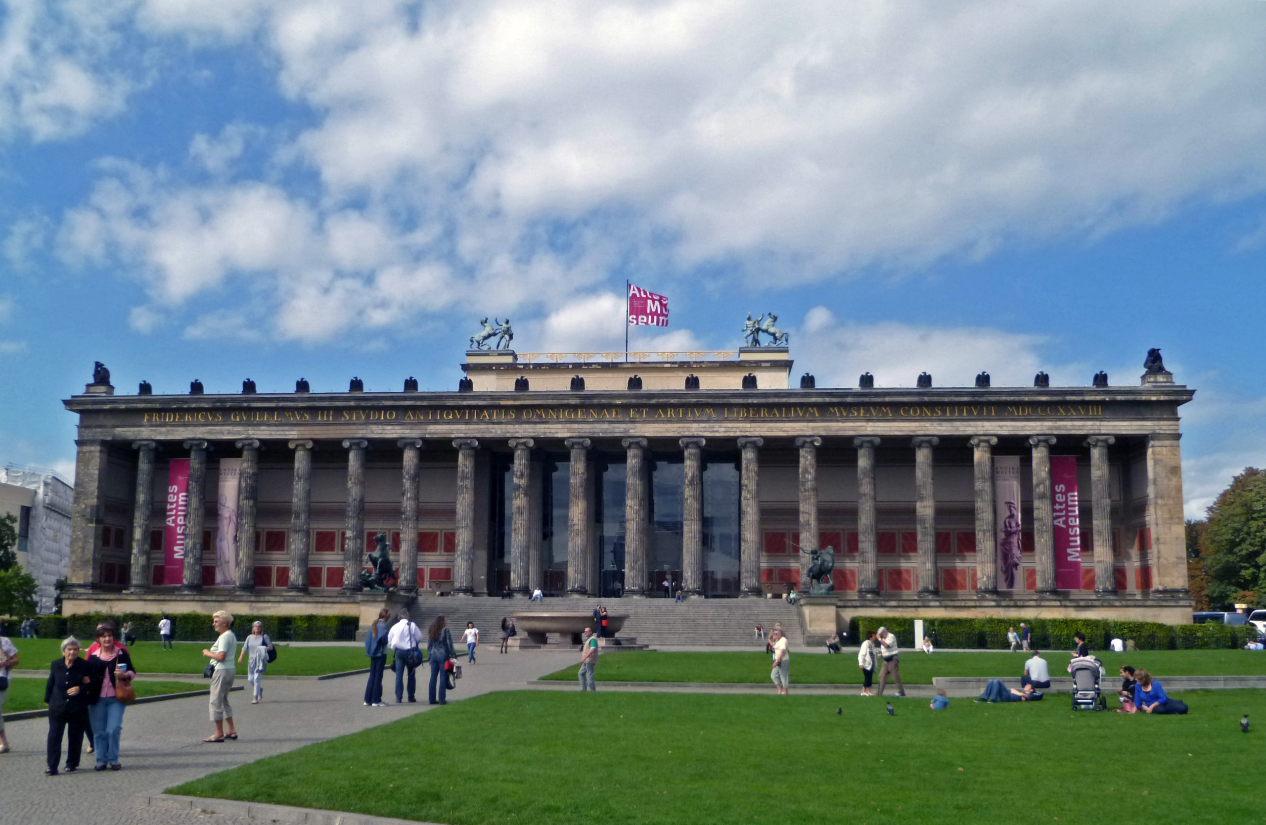 Exterior view of the Altes Museum, Berlin, Germany